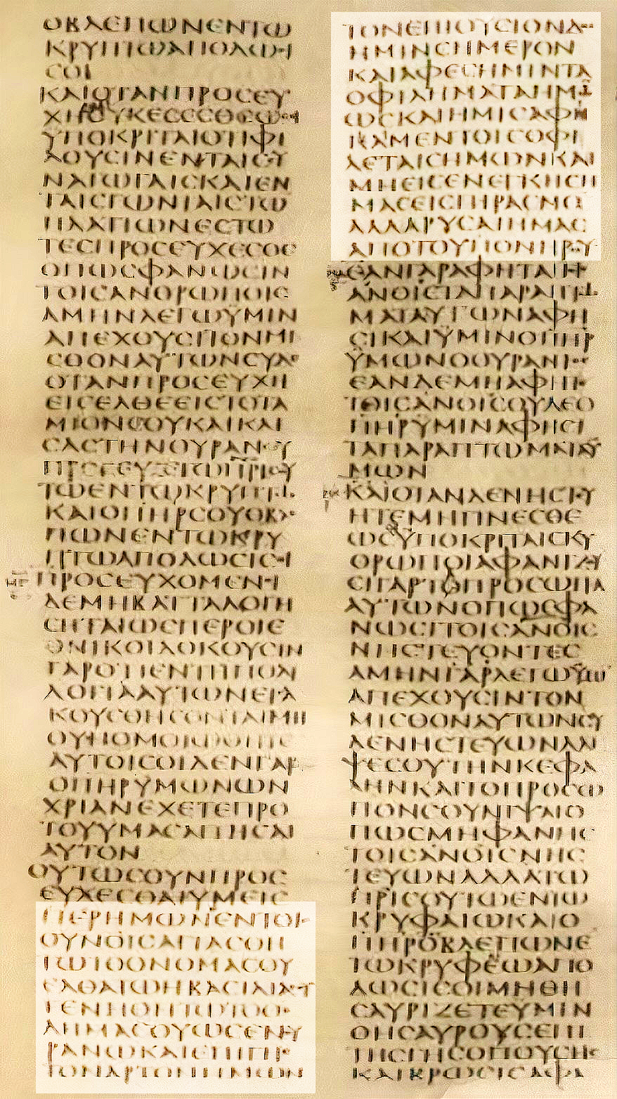 Our Father in heaven